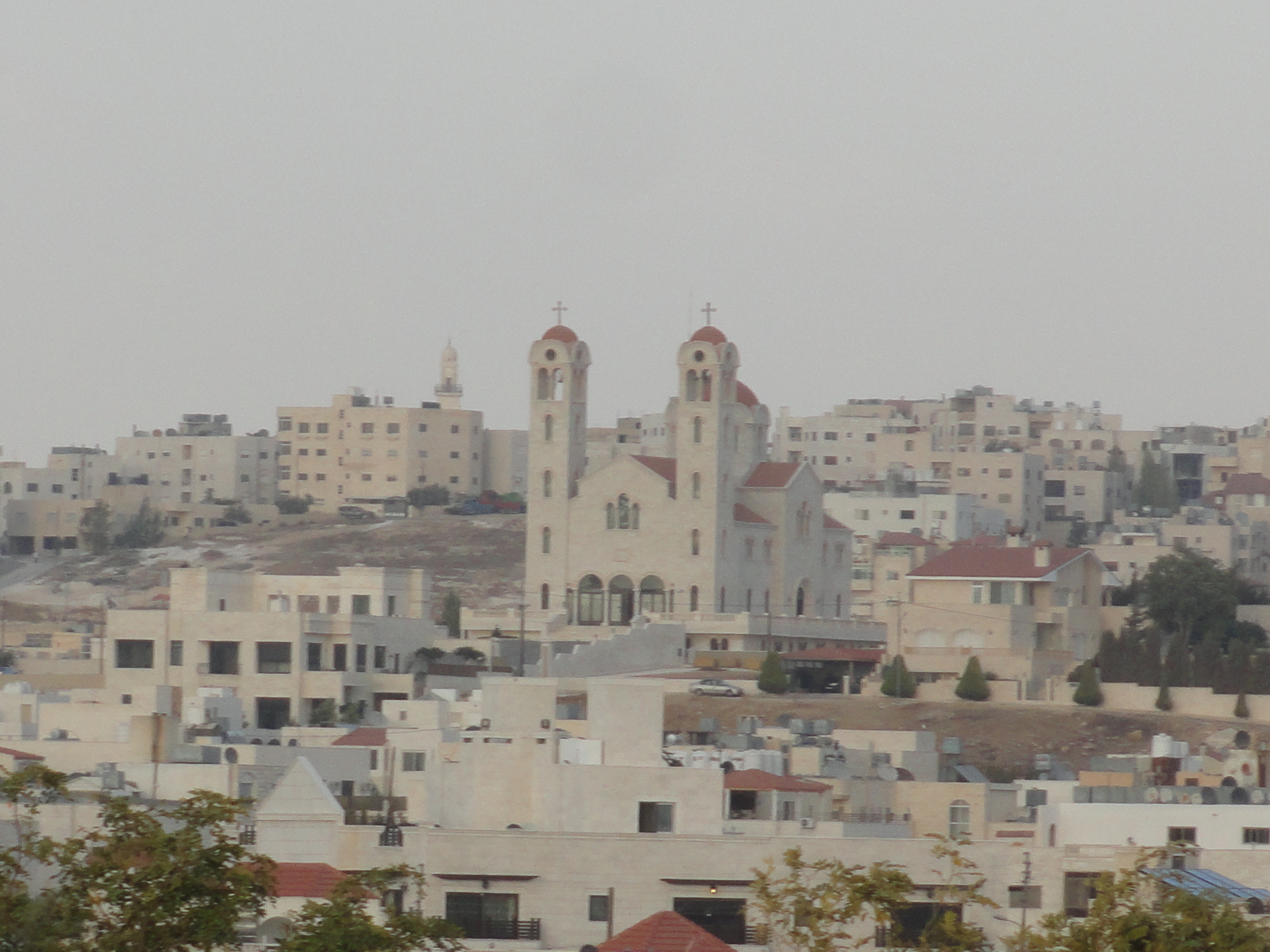 Khalda Orthodox Church in Amman, Jordan